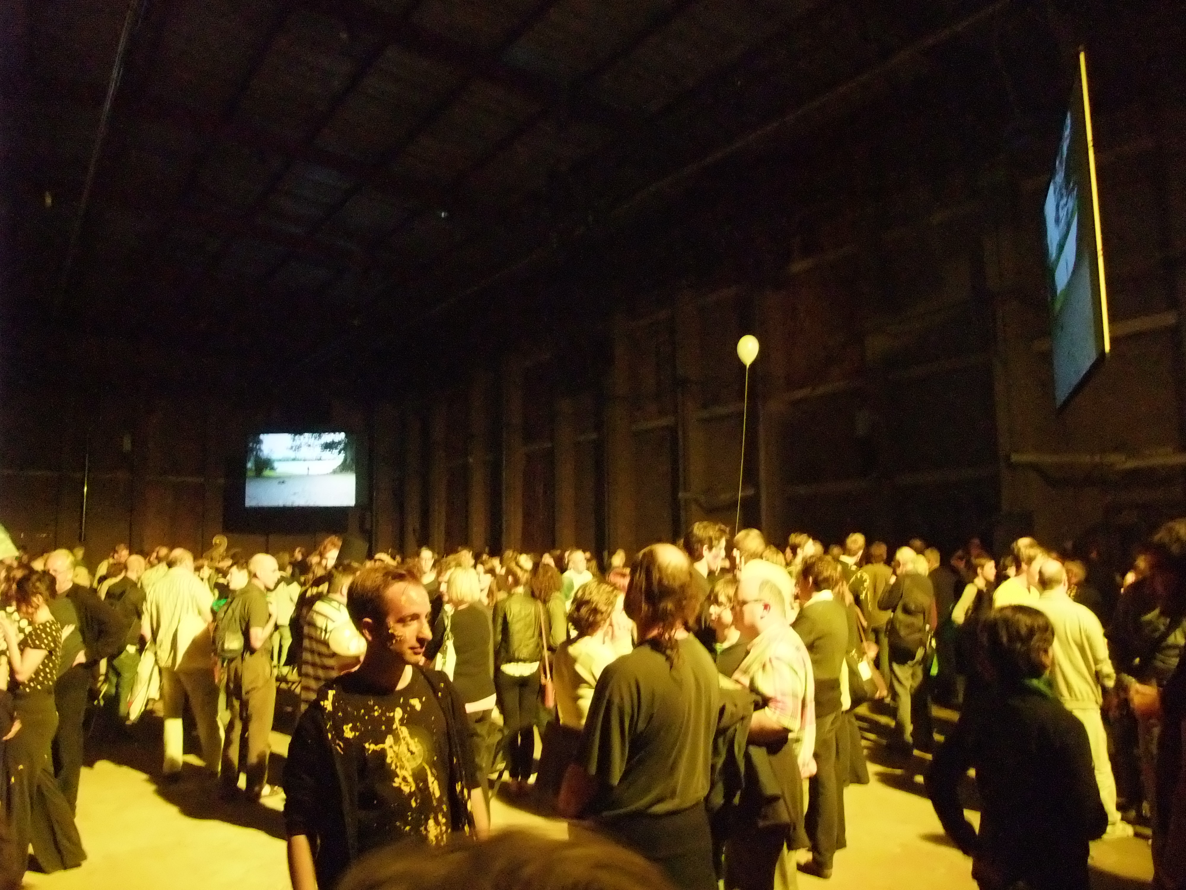 Audience and cast mingling during the Mittwochs-Abschied (Wednesday Farewell) at the end of the performance on Thursday, 23 August 2012, of Karlheinz Stockhausen's opera Mittwoch aus Licht (Wednesday from Light), Argyle Works, Digbeth, Birmingham, UK. Production by Birmingham Opera, Graham Vick (director), Kathinka Pasveer (musical director). Photograph by Jerome Kohl.